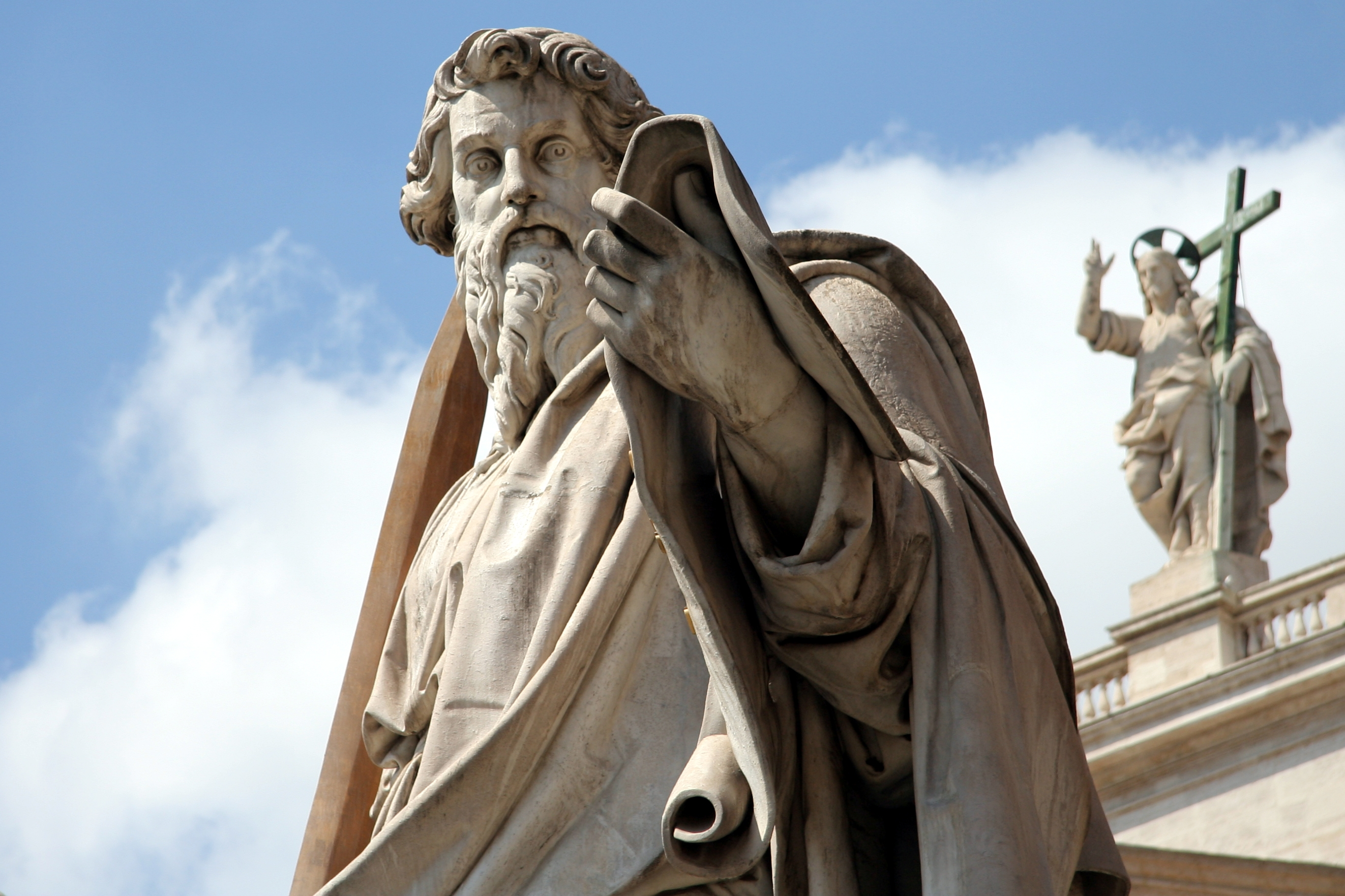 St. Paul statue in front of St. Peters Basilica (Vatican). (Sculptor: Adamo Tadolini)